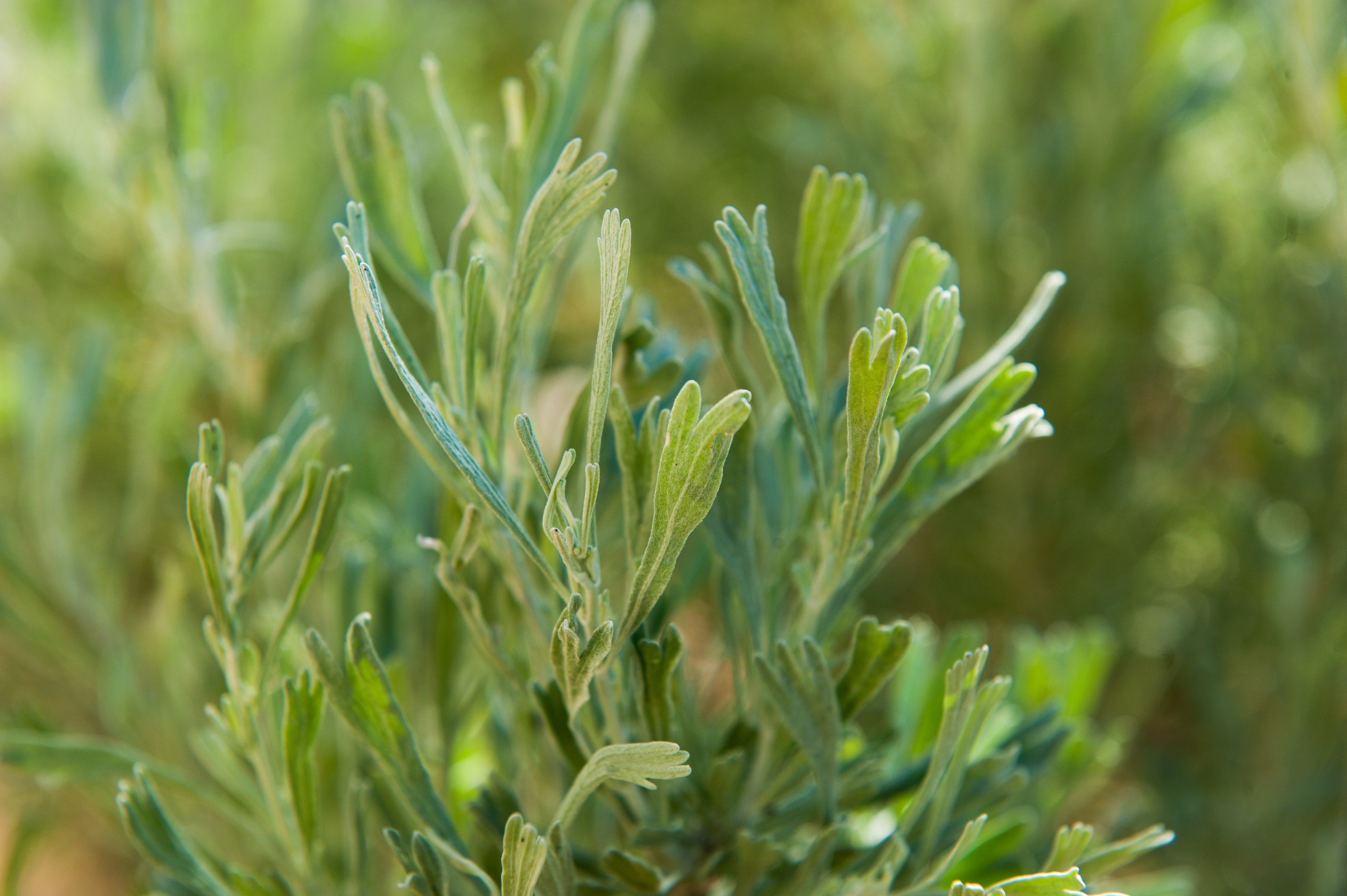 Artemisia tridentata. NPS Photo by Neal Herbert